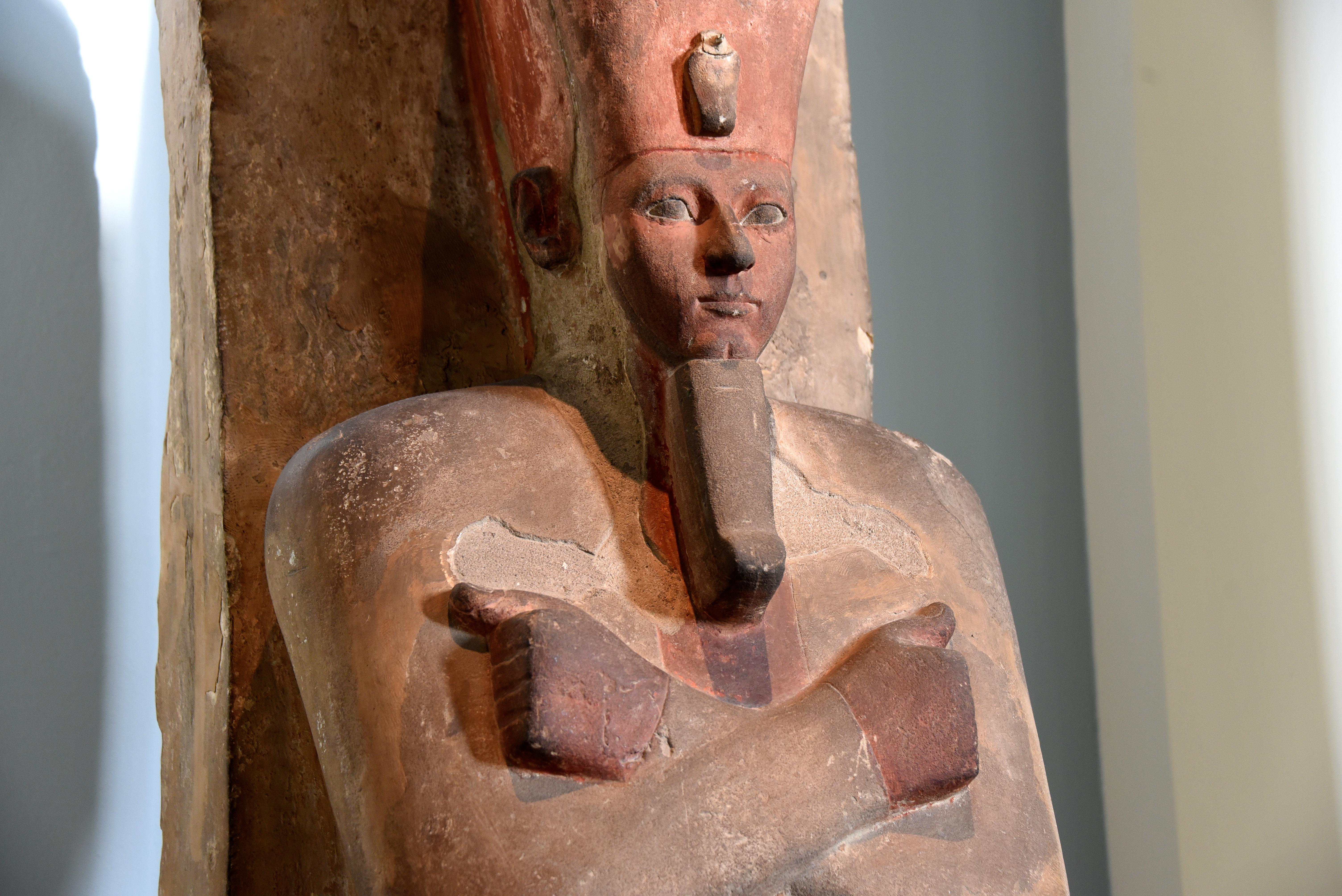 This is the upper part of a limestone Osiride statue of Amenhotep I. 18th Dynasty, reign of Amenhotep I, circa 1525-1504 BC. From Western Thebes, Deir el-Bahri, Temple of Amenhotep I, modern-day Egypt. Gift of the Egypt Exploration Fund, 1905. It is currently housed in the British Museum in London.